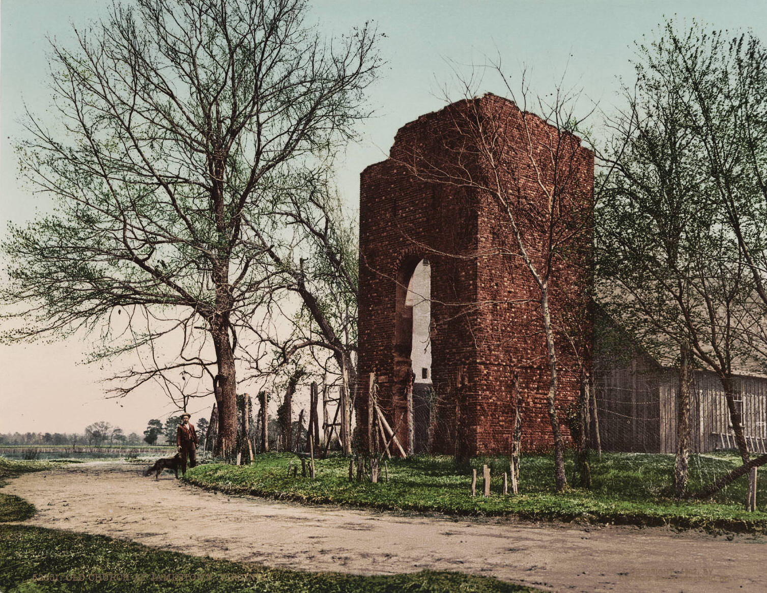 A photochrom postcard published by the Detroit Photographic Company Photograph of ruins of the Old Church at Jamestown, Virginia, circa 1902.